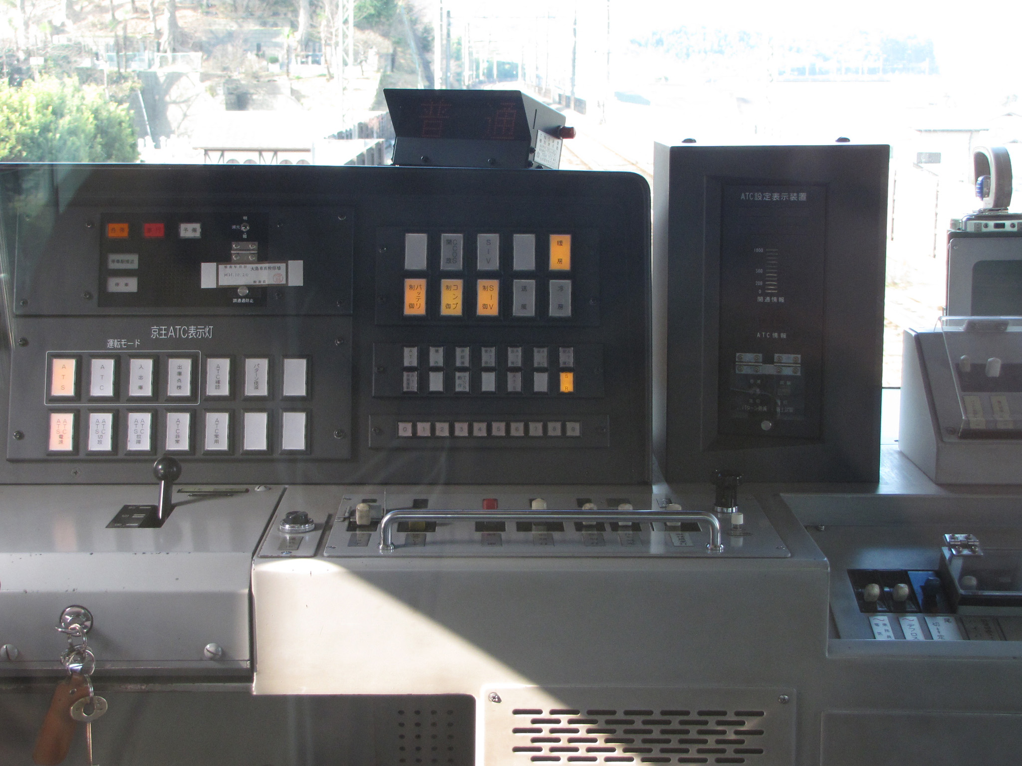 Train Cab of 10-300R Tokyo Metropolitan Bureau of Transportation(Keio-ATC included)